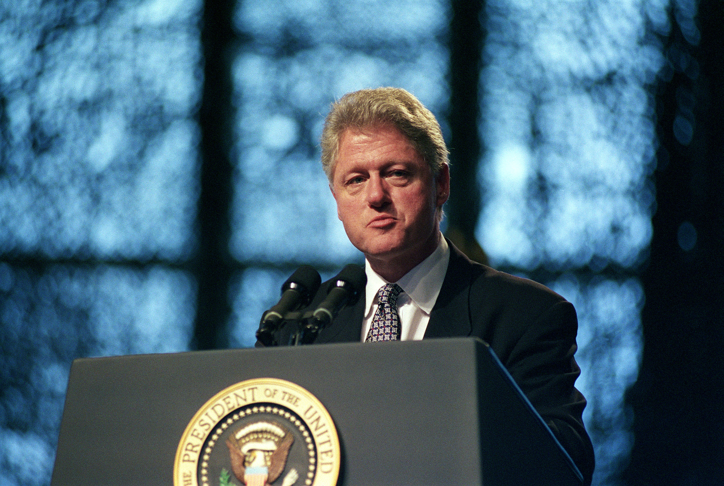 President Clinton addresses U.S. and NATO military personnel, families, and civilian Department of Defense employees (not shown) on April 1, 1999, at Norfolk Naval Station, to express America's thanks to personnel deployed overseas in support NATO Operation Allied Force.